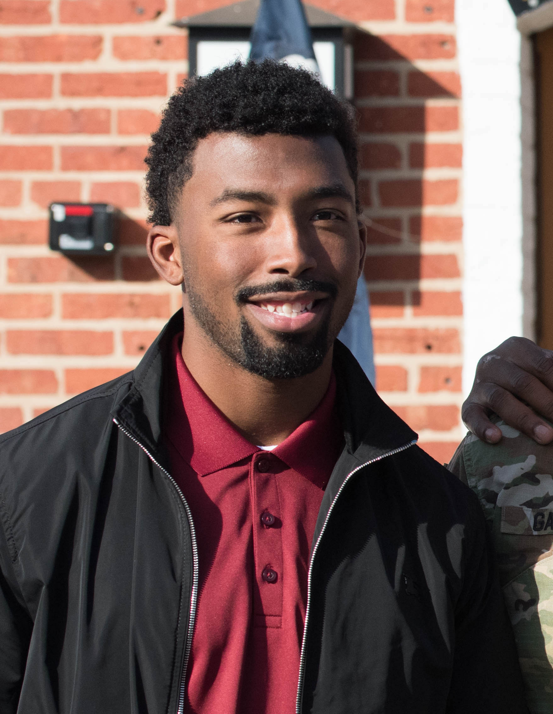 Washington Redskins cornerback, Kendall Fuller, visiting Joint Base Myer-Henderson Hall, VA on November 8, 2016.